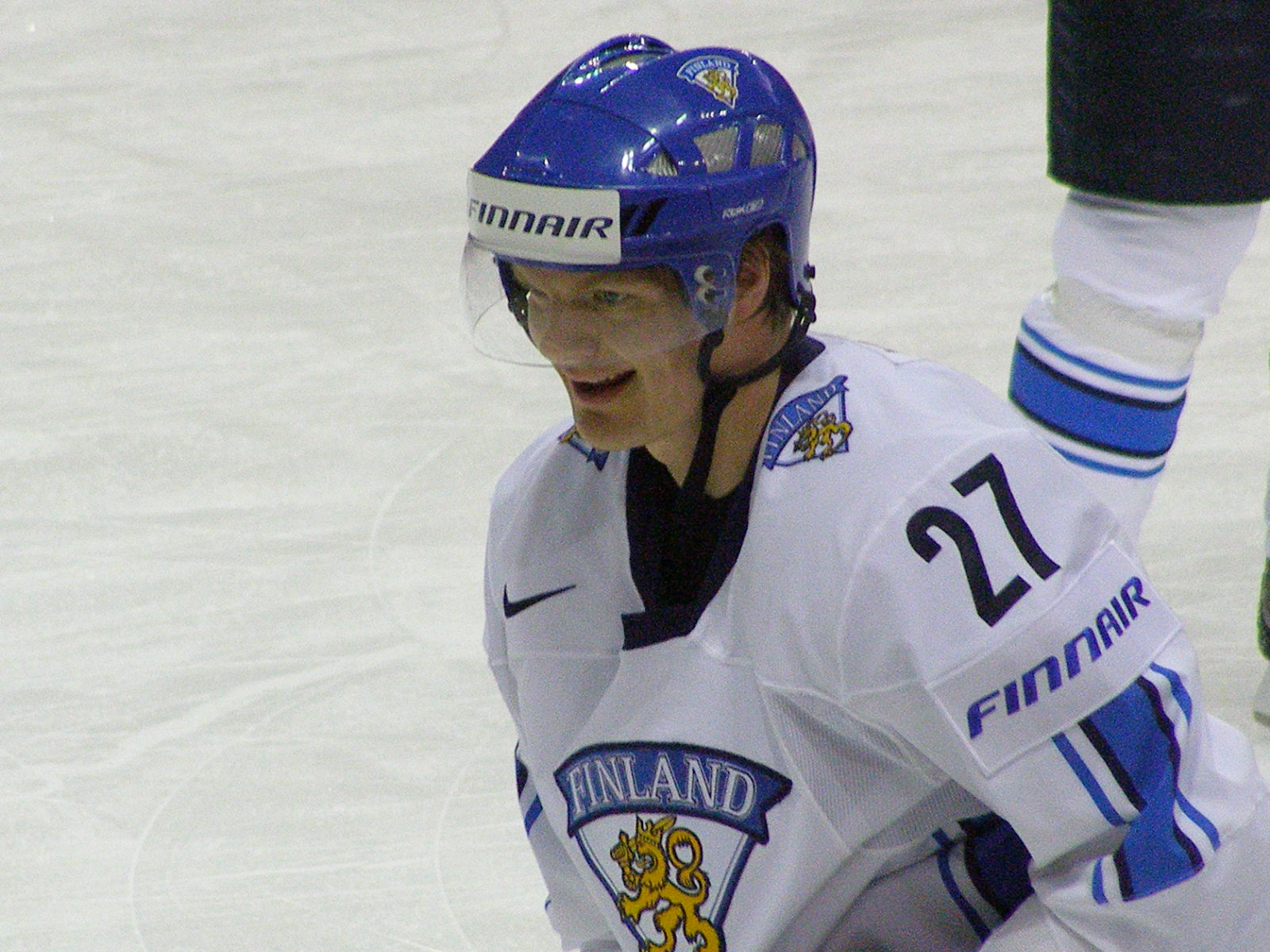 Mikko Jokela, defenseman for the Finland men's national ice hockey team, during a break in action against Germany men's national ice hockey team at the 2008 IIHF World Championship.